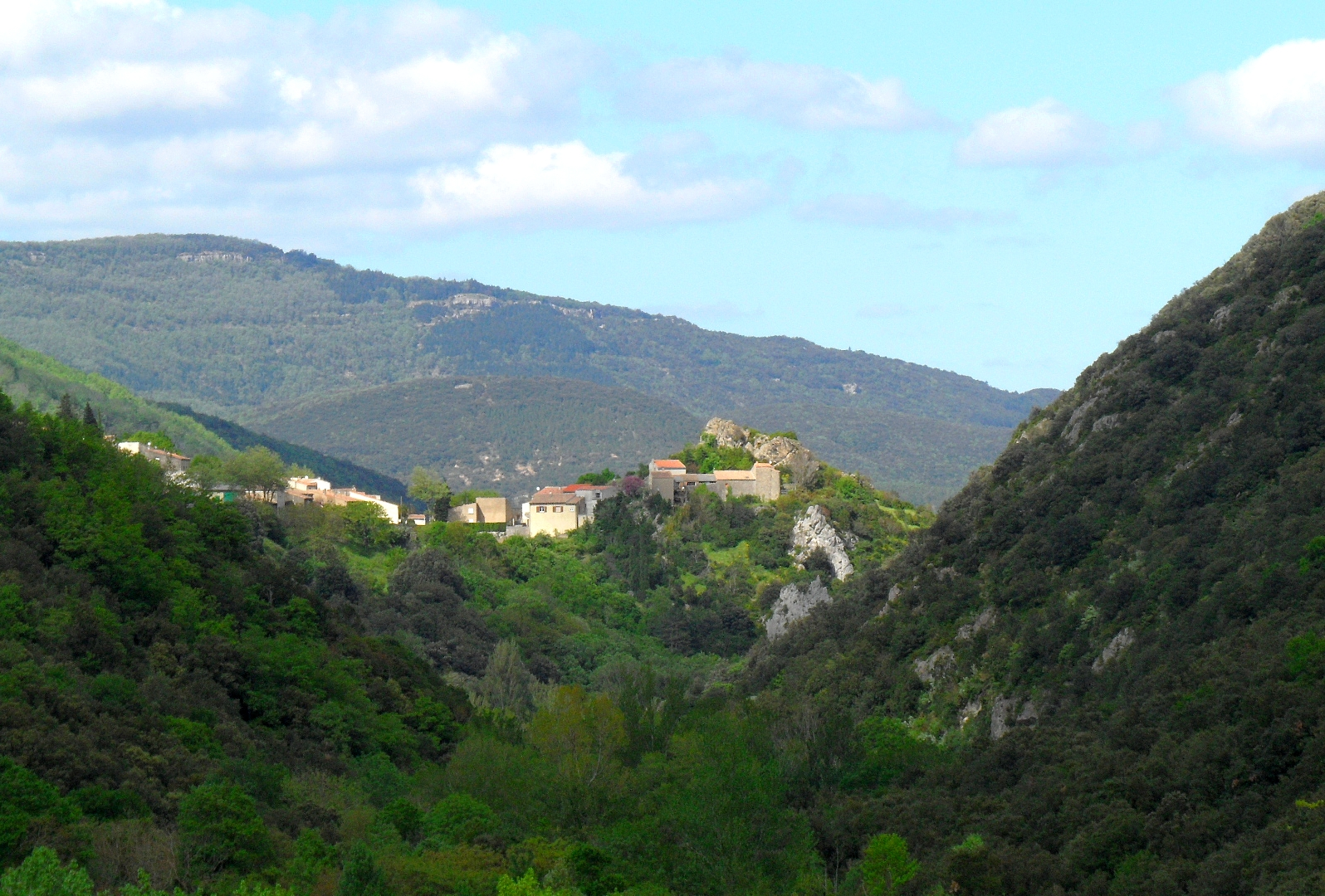 View of Montjoi, Aude, France